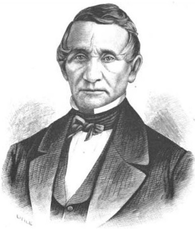 Jacob H. De Witt, New York Congressman